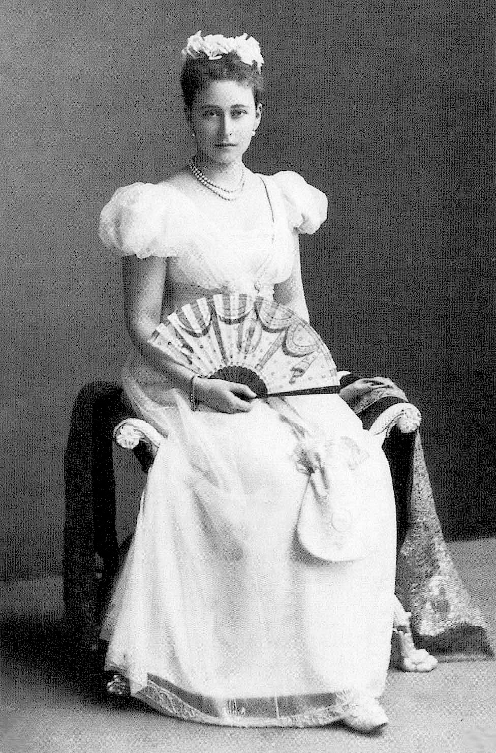 Елизавета Фёдоровна